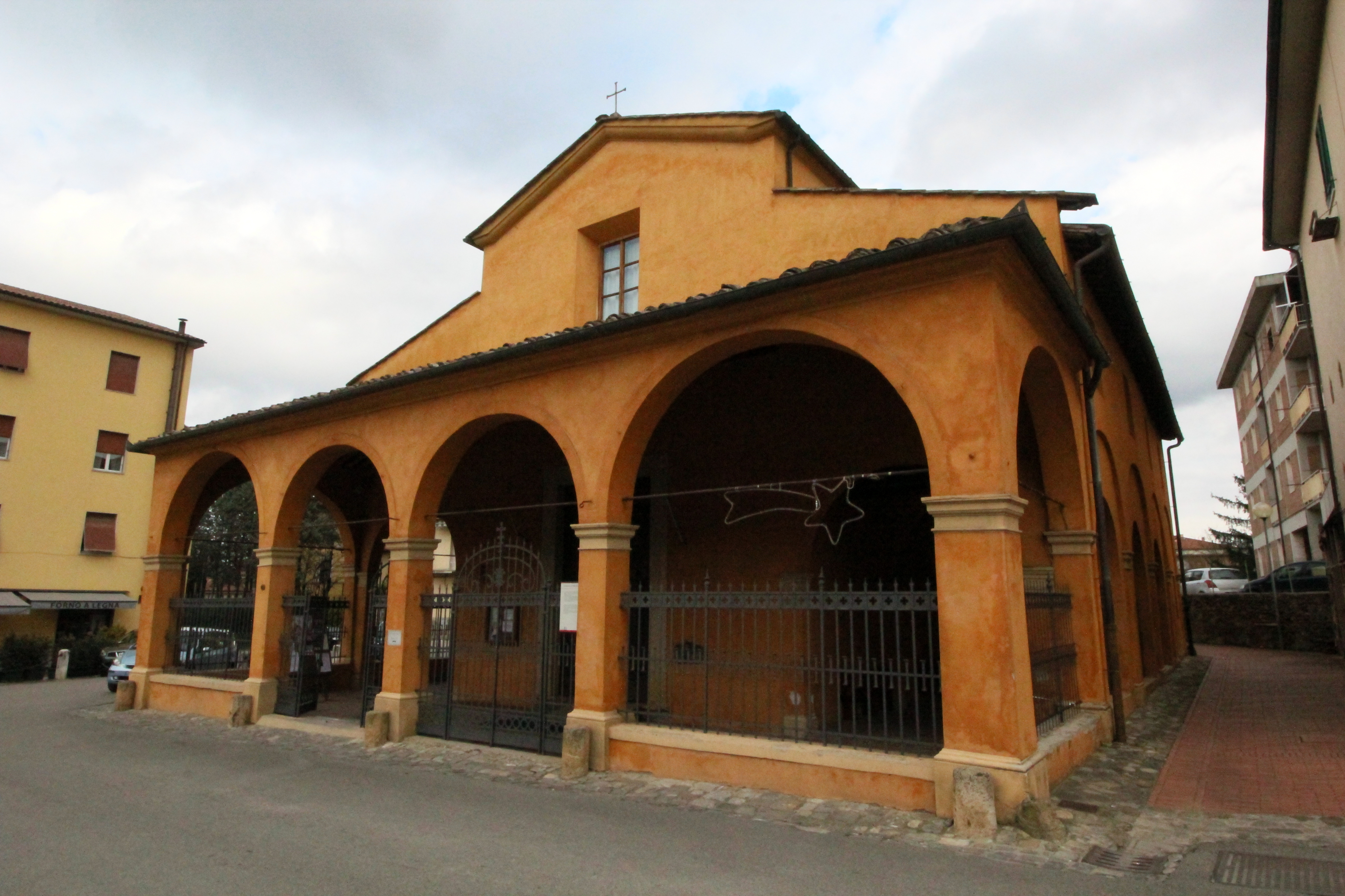 Church/Sanctuary Santuario di Santa Maria al Romituzzo, Poggibonsi, Province of Siena, Tuscany, Italy